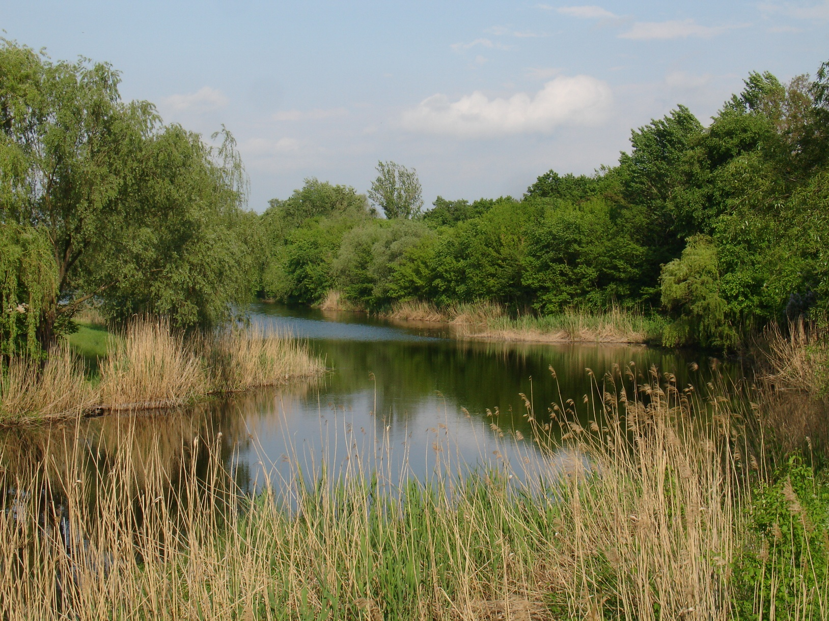 River Govtva in Reshetylivka